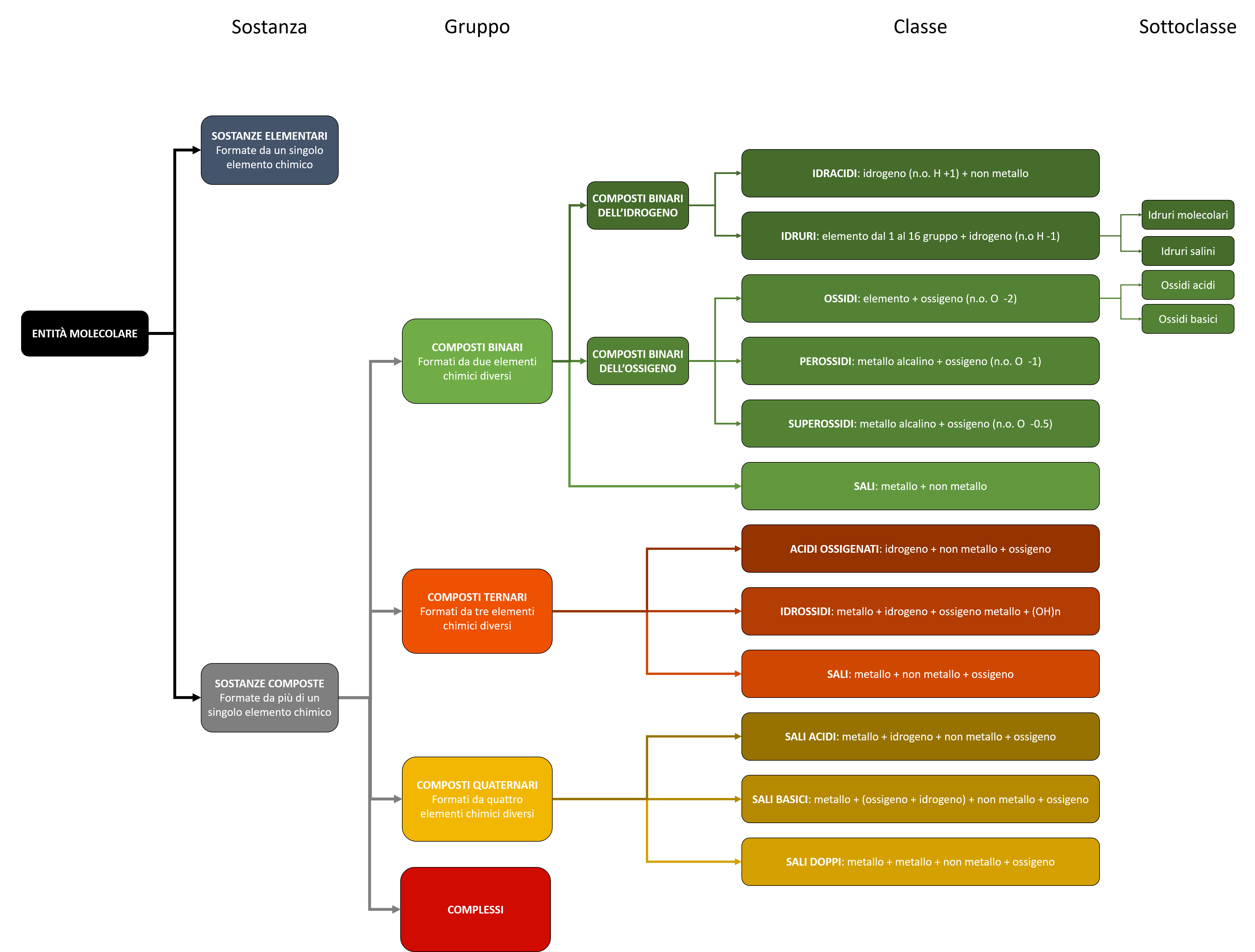 Tree diagram that groups inorganic chemical compounds into families, classes and subclasses for easy classification for the formulation of names.